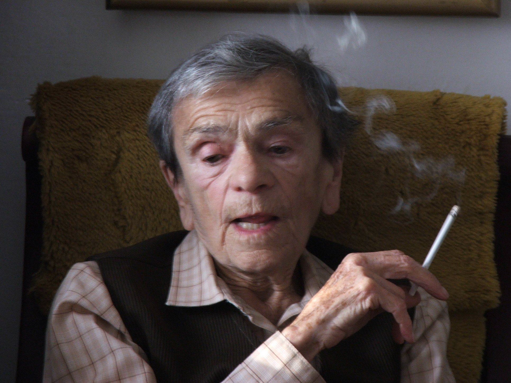 Krystyna Feldman, a Polish actress - during her visit to Inowrocław, Poland. Picture by Selena.